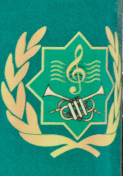 Celebrating the 20th year of independence in Turkmenistan